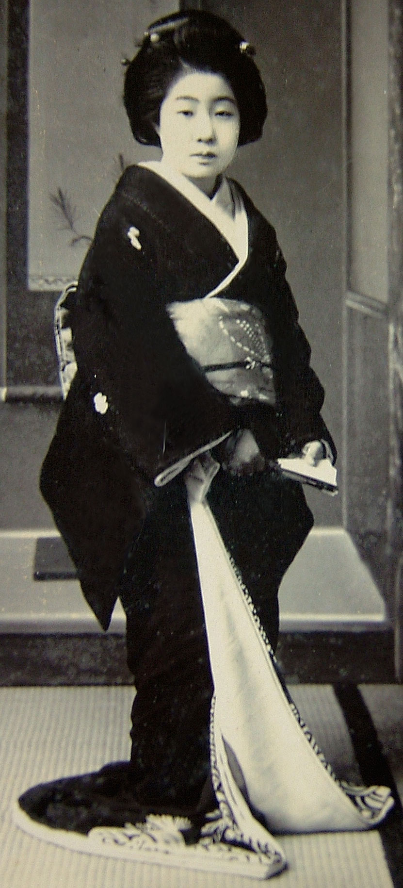 An Example Of A Geiko Of Kyoto With An Obidome In Kuromonntsuki Before World War II